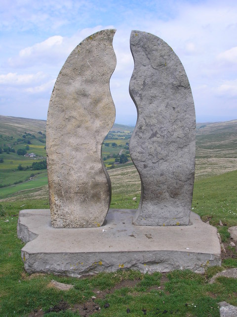 Water Cut. A sculpture by Mary Bourne of two colours of stone. The red tinged stone is common in the Eden Valley below and the grey limestone predominates on the fells. The sculpture can be seen on the skyline over a wide area and is visible from the Settle-Carlisle line between Garsdale and Kirkby Stephen along the Mallerstang valley.